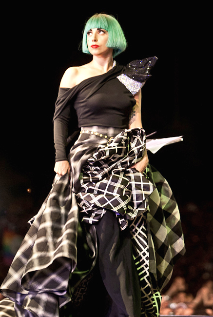 Lady Gaga at Rome in 2011.